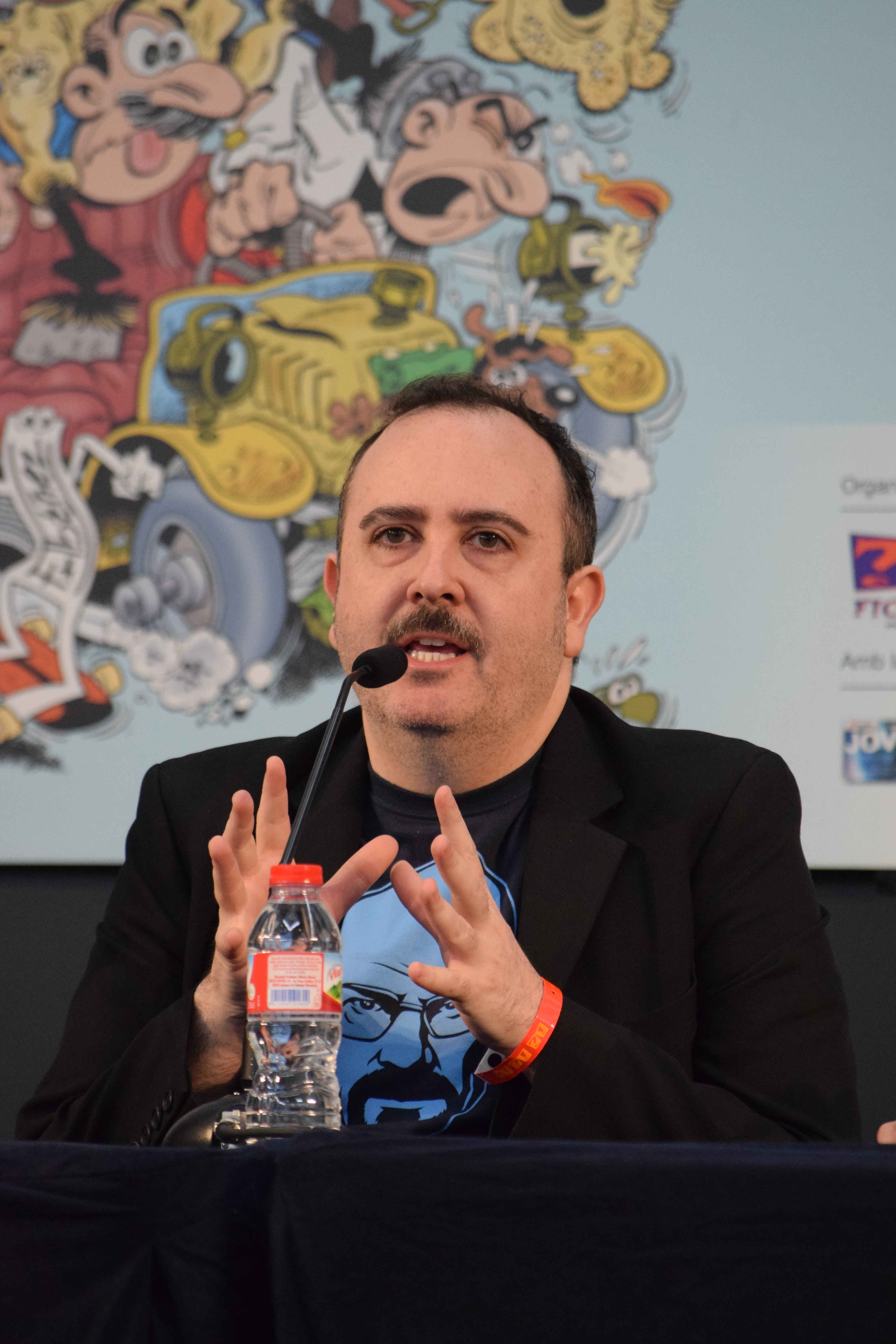 Carlos Areces during the conference Le’ts talk about Ibáñez during the Barcelona International Comic Convention. The other speakers where Kiko da Silva and "Joso" with Vicent Sanchis as moderator. Friday 6 de may of 2016